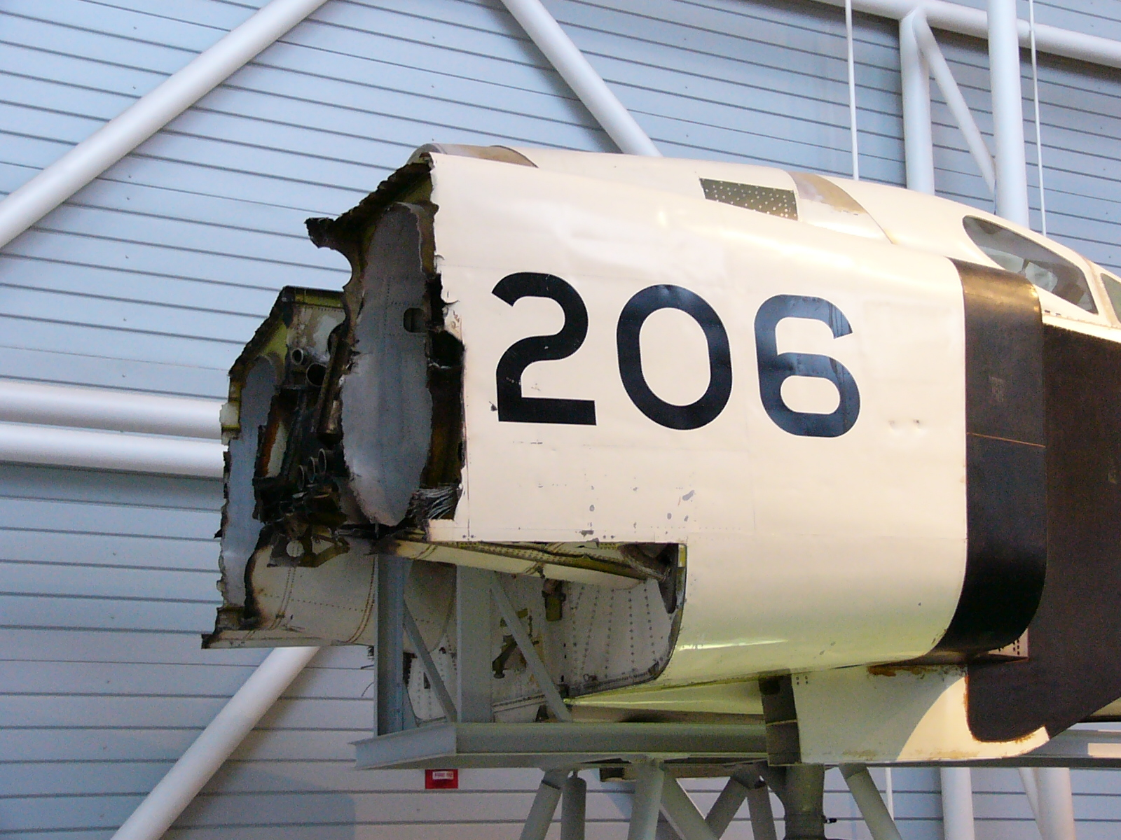 Detail of Avro Arrow RL-206 showing torch cutting